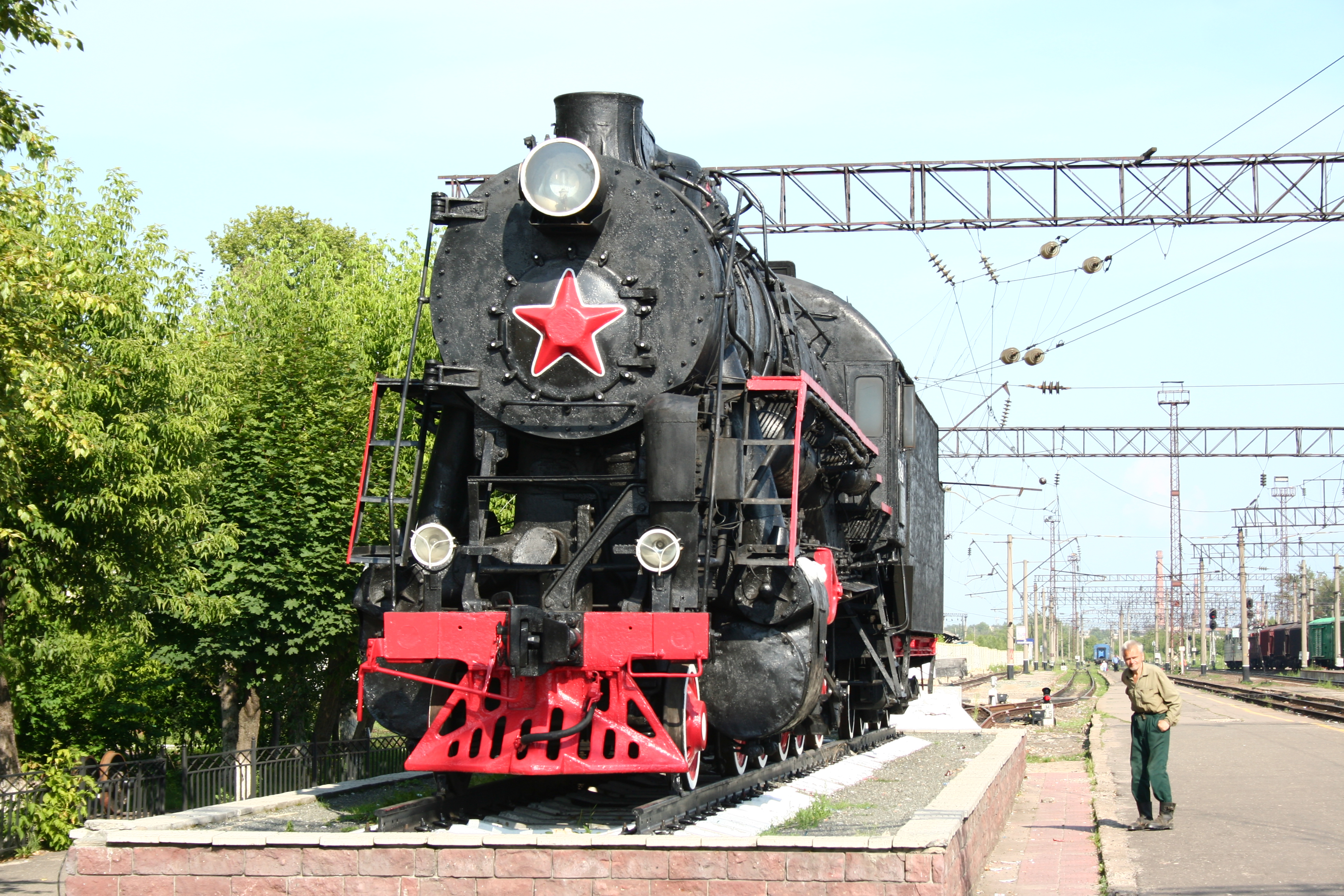 Steam locomitive type L in Murom